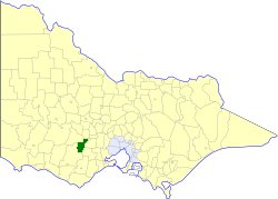 Location of the former Shire of Grenville within Victoria.